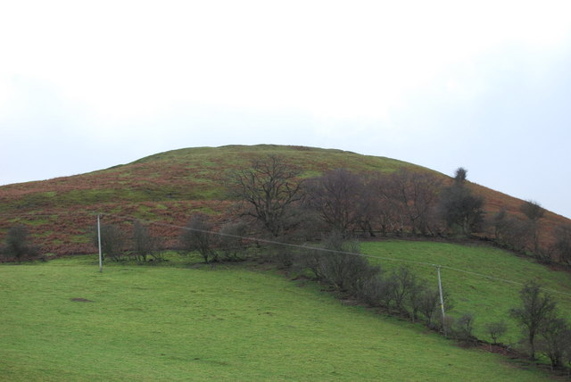 Llwyn Bryn-dinas from the north This is marked as Gravel Hill on some maps, the ancient fort of Bryn-dinas is on the southern flank of the hill.